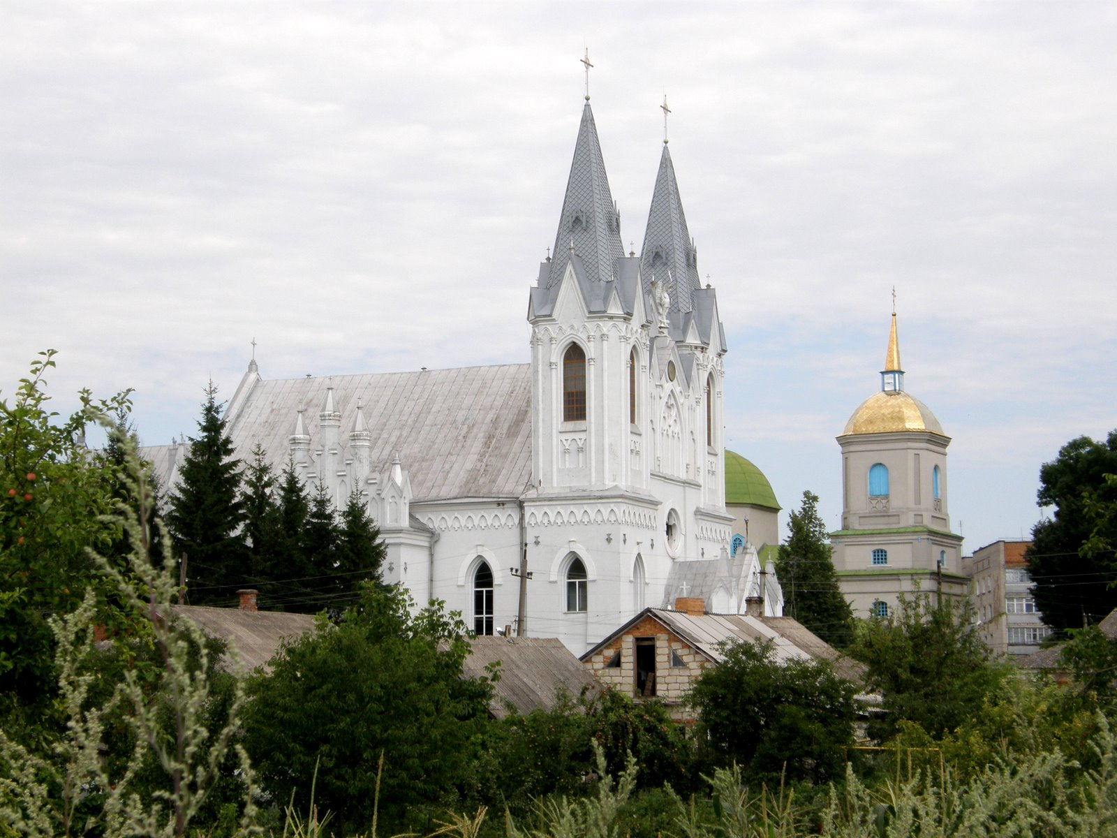 Roman Catholic church (1811). Bar is a city located on the Rov River in the Vinnytsia Oblast of western Ukraine.